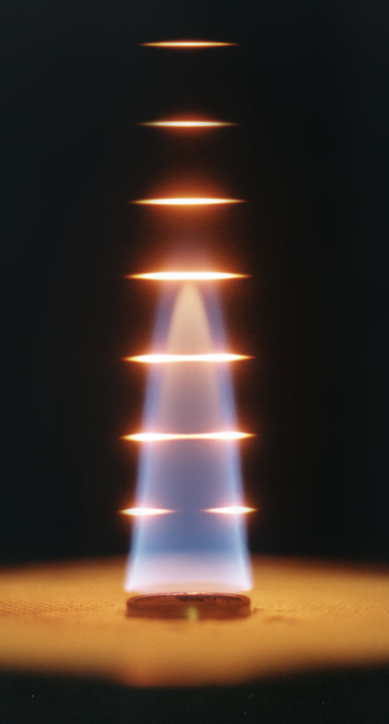 Image of a flame with several very thin wires above it at regular distances. The glowing color of the wire corresponds to the temperature at that point. This image shows that the hotest part of the flame is shaped like a hollow cone.